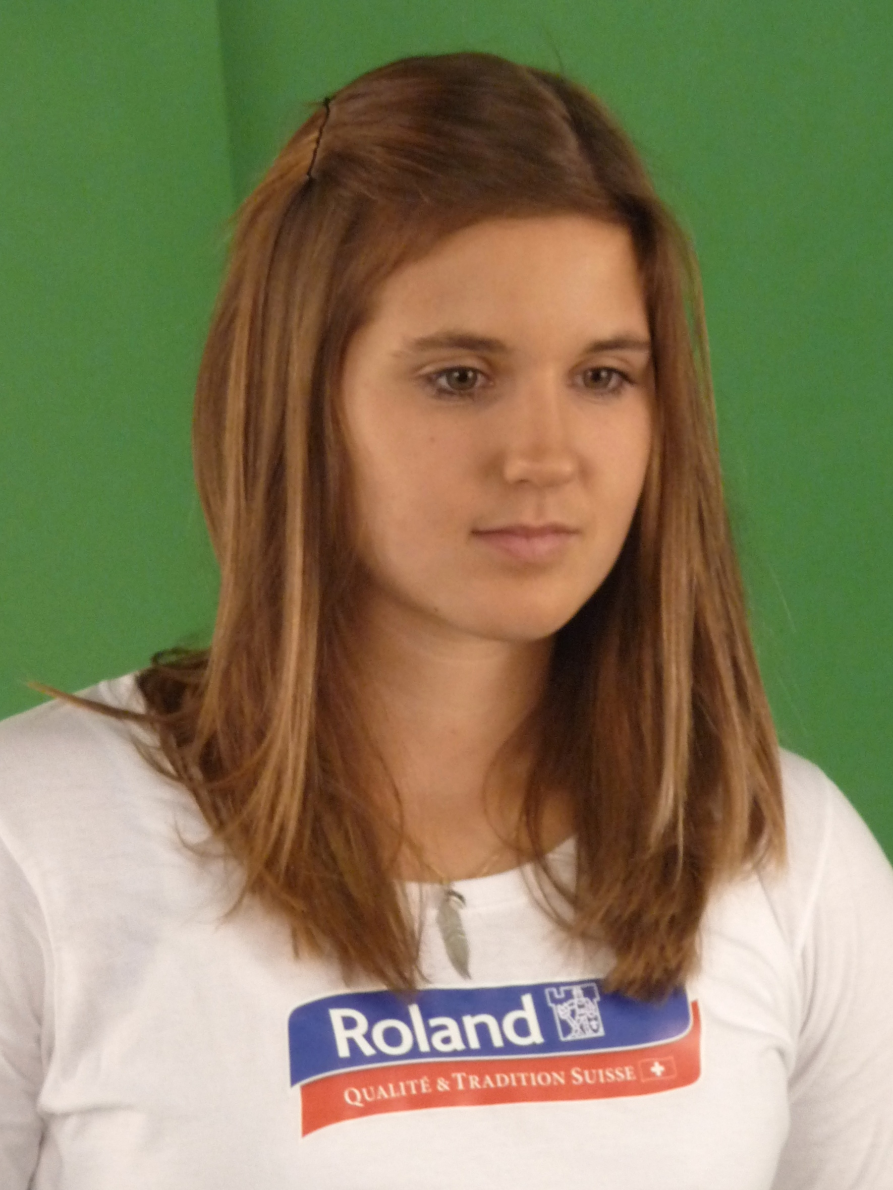 Swiss alpine ski racer Joana Hählen at "Swiss-Ski-Abgabetag" in Aviation Flab Museum, Dübendorf, Switzerland